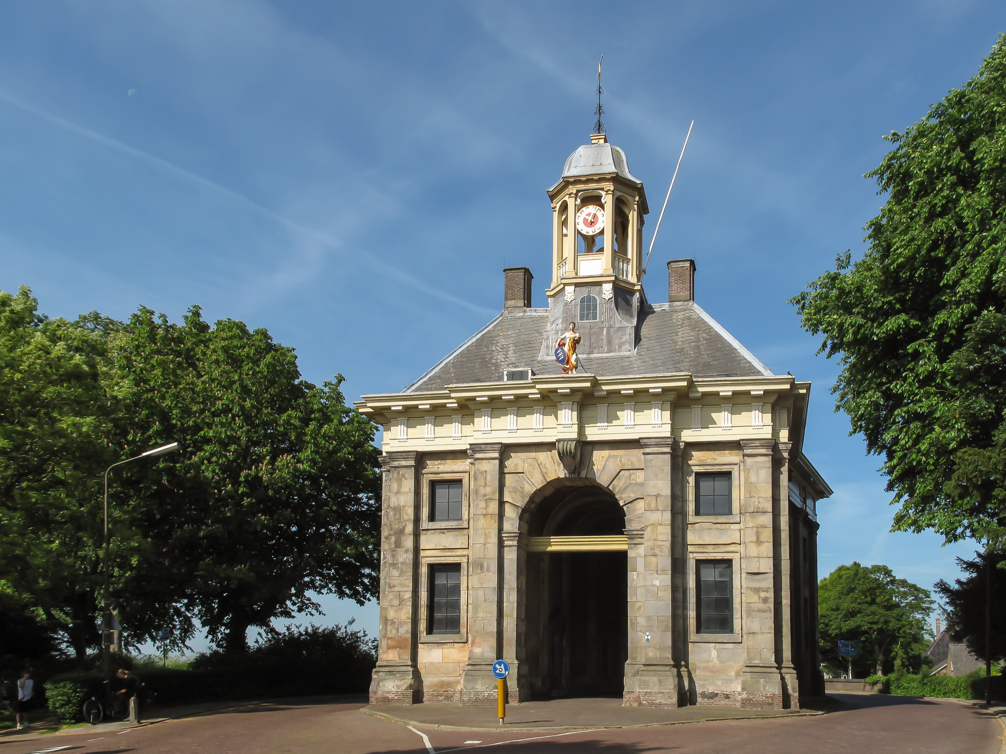 Enkhuizen, town gate: de Koepoort